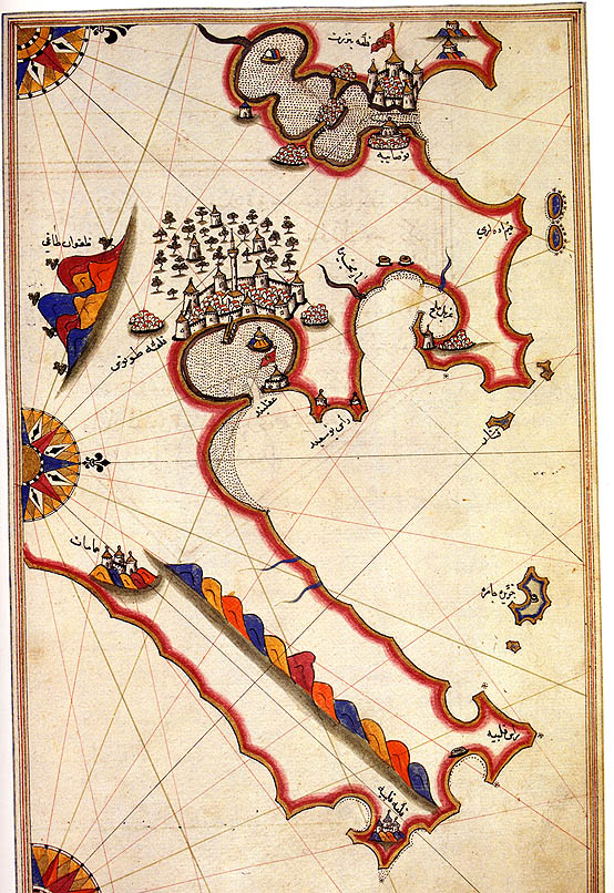 Tunis on the Kitab-Ä± Bahriye (Book of Navigation) of Piri Reis, 1520s